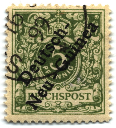 Scan of German New Guinea 5pf stamp of 1897